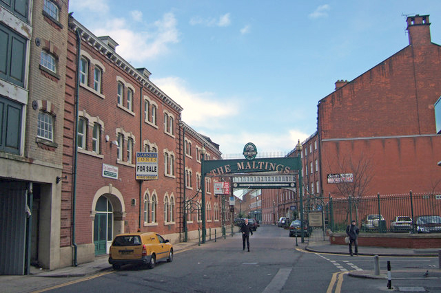 The Maltings, developed on the site of the former Hull Brewery, Kingston upon Hull, East Riding of Yorkshire, England.